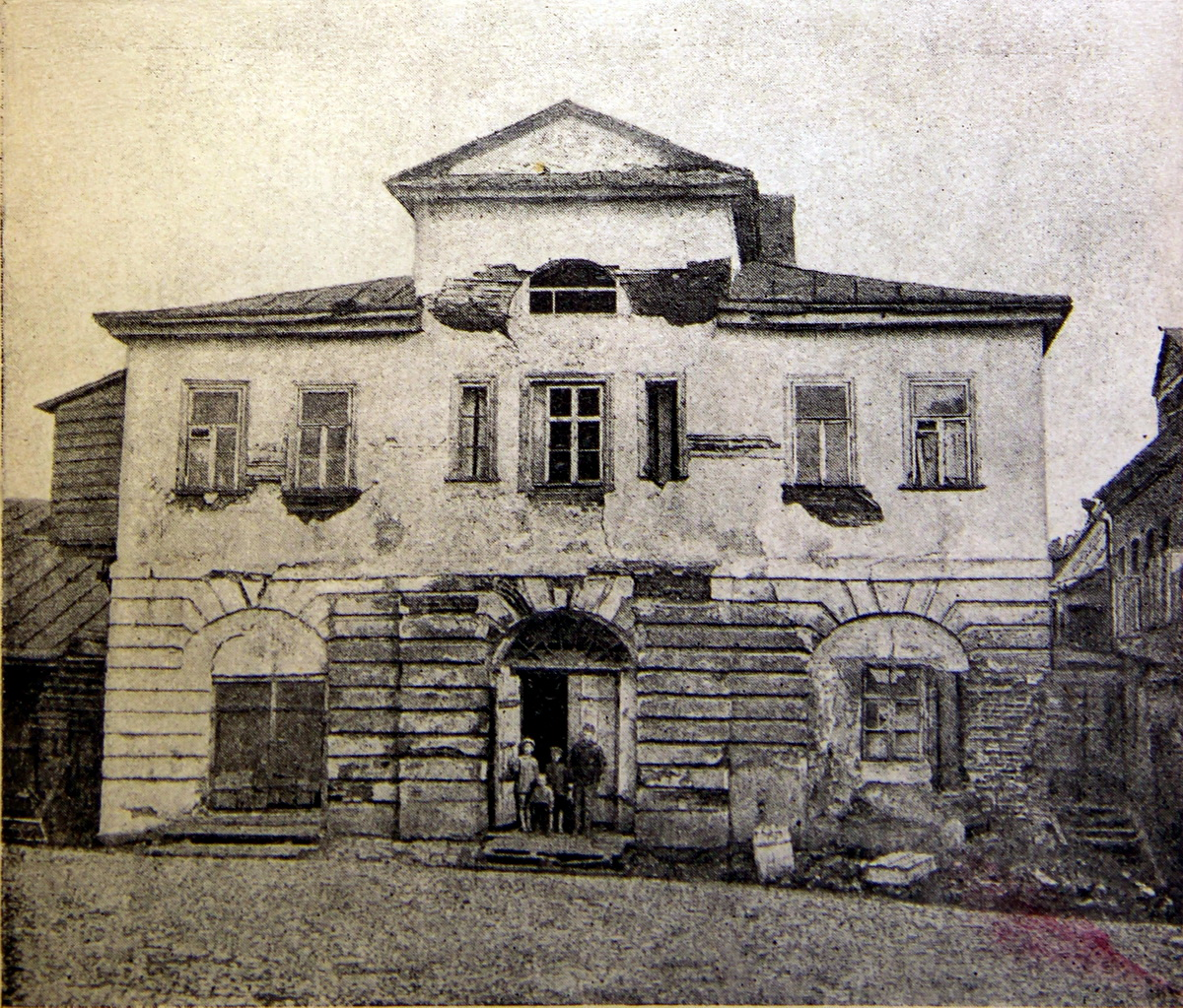 Old Court in Miensk